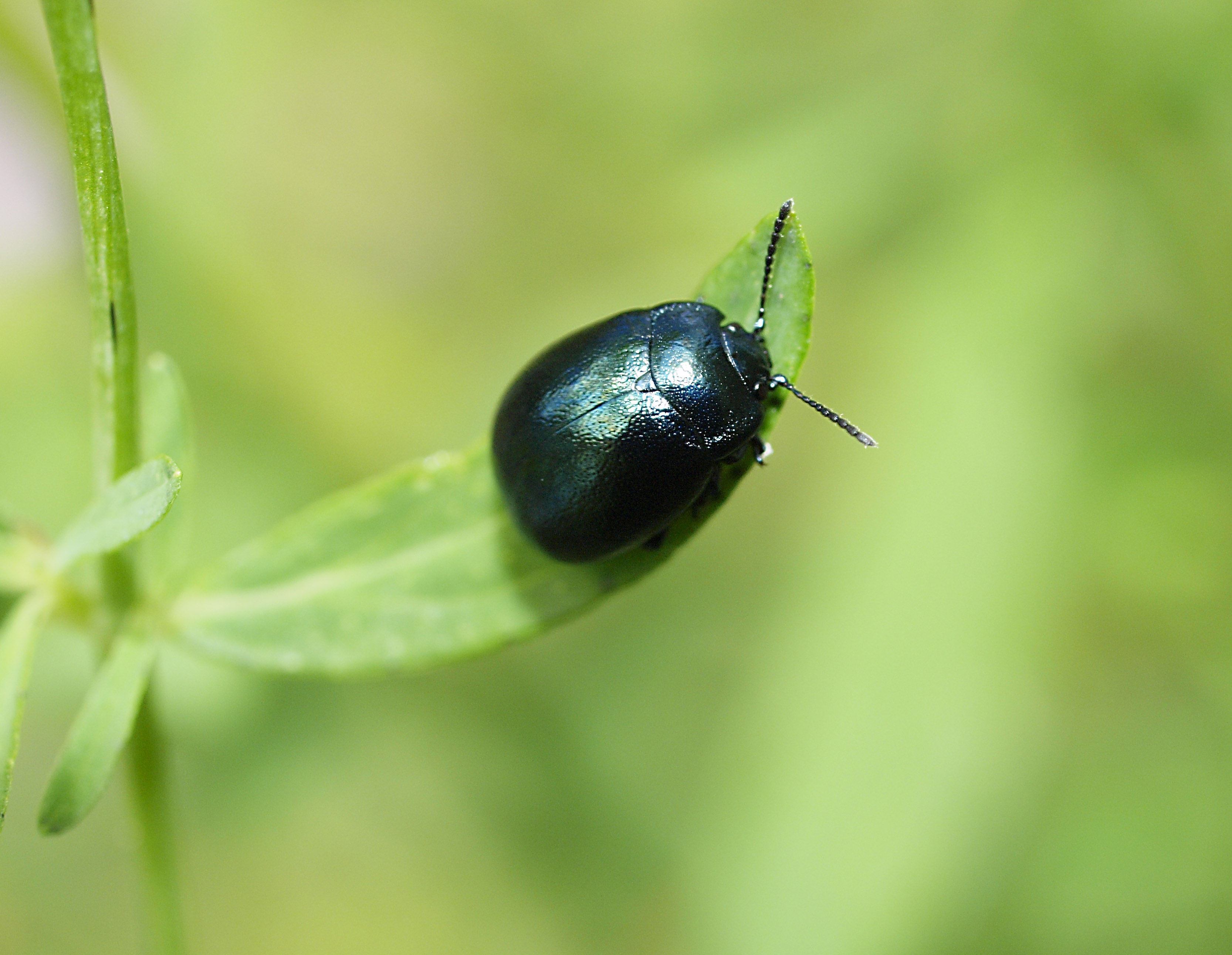 The leaf beetle Chrysolina varians on its host plant St John's wort. Chrysolina varians (en bladbille) på Prikbladet Perikon (Hypericum perforatum)